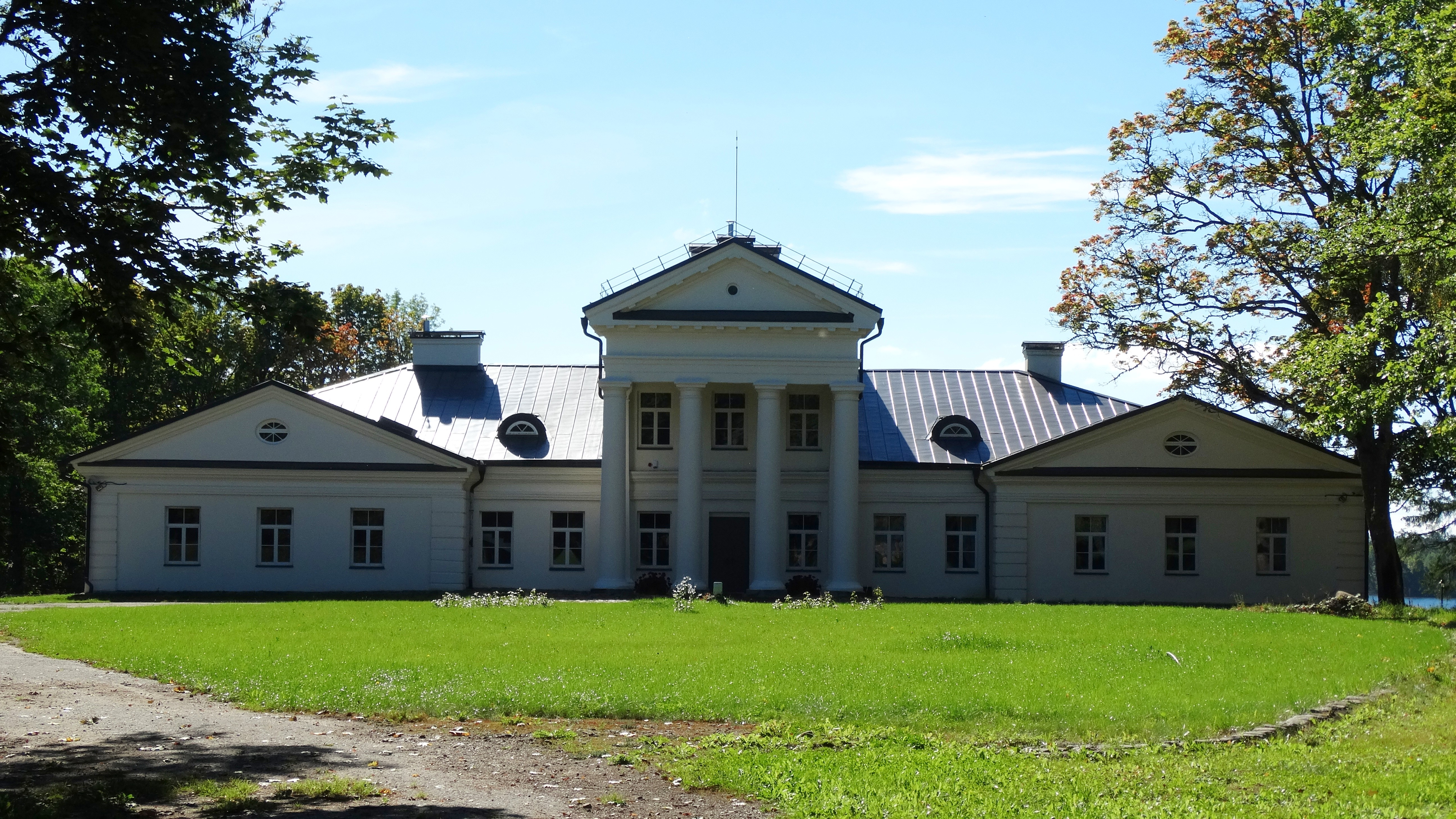 Manor in Dūkšteliai, Ignalina District, Lithuania